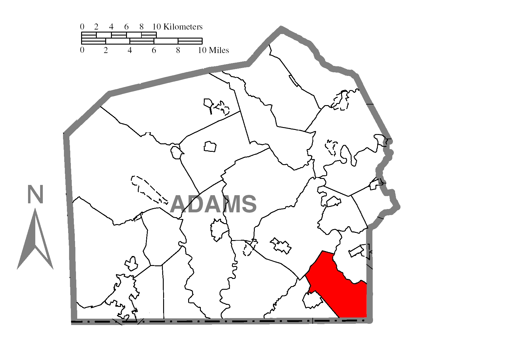 A map of Adams County showing Union Township, Pennsylvania (alternate) highlighted on the map.